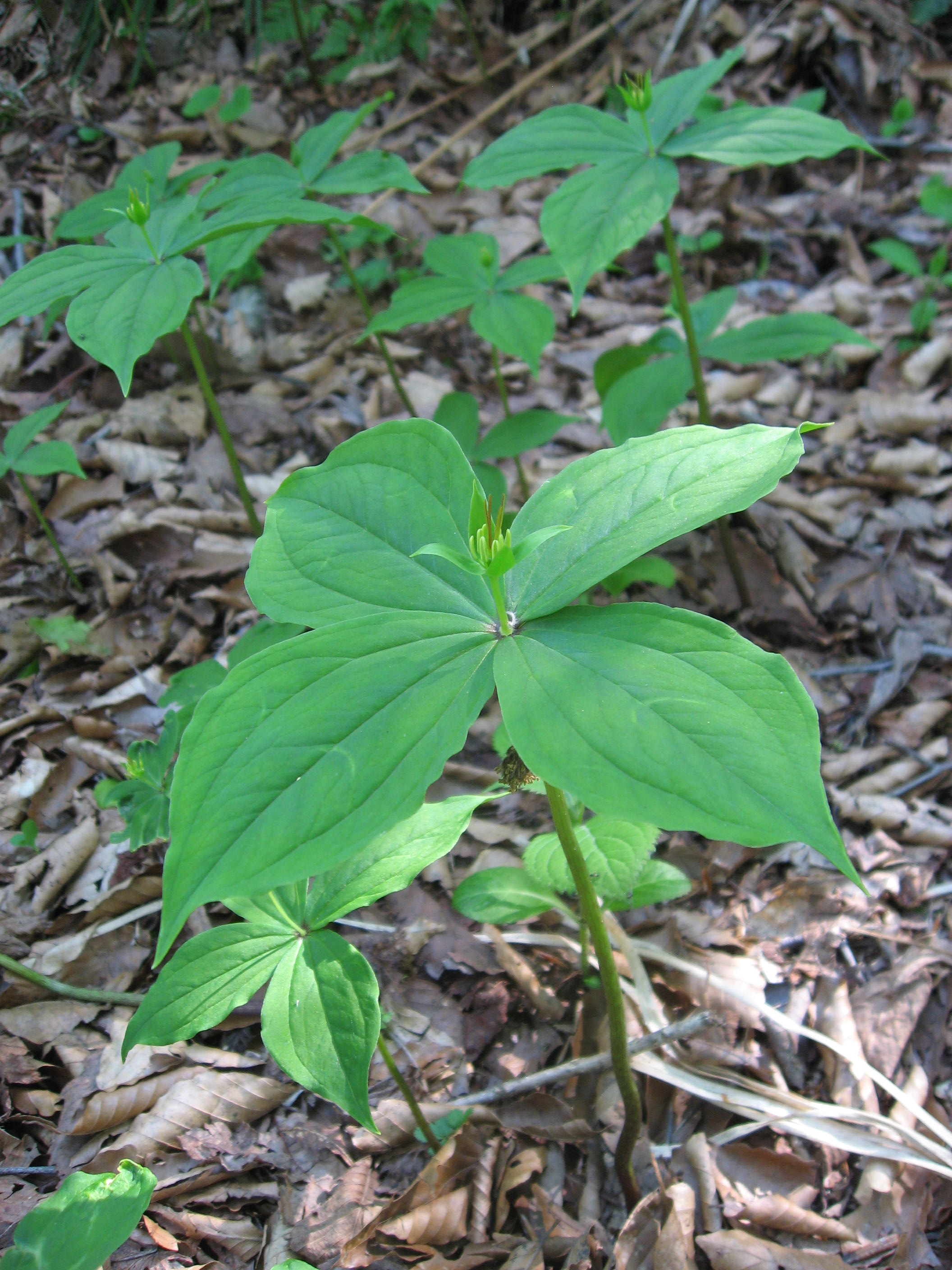 Paris tetraphylla, Aizu ares, Fukushima pref., Japan